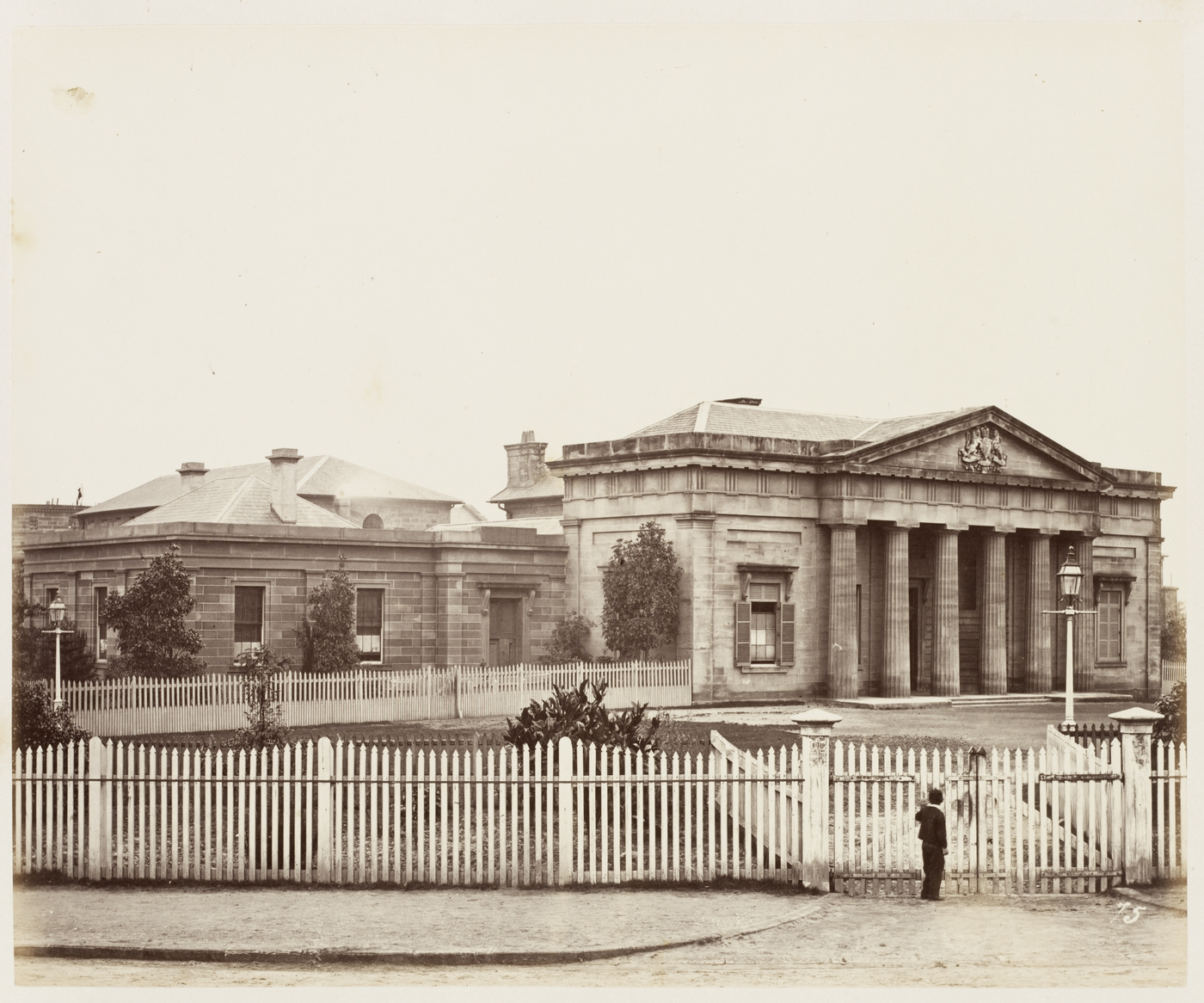 22. Court House, Darlinghurst (front view) SH 571